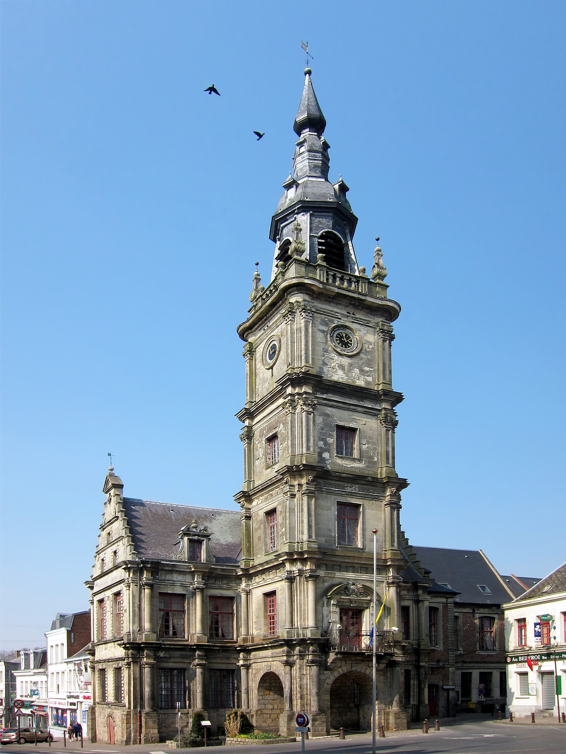 The renaissance style town hall of Le Cateau-Cambrésis (Nord, France), built in 1553, and its belfry built in 1705 by Jacques Nicolas de Valenciennes.